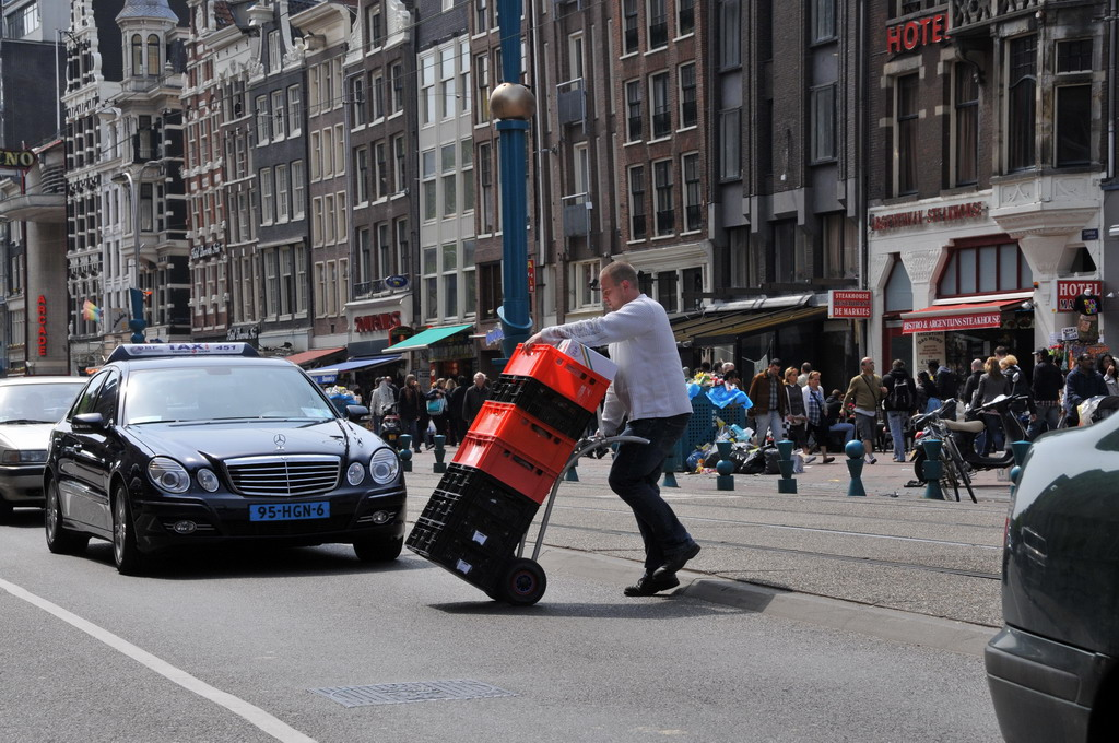 Hand truck in Amsterdam